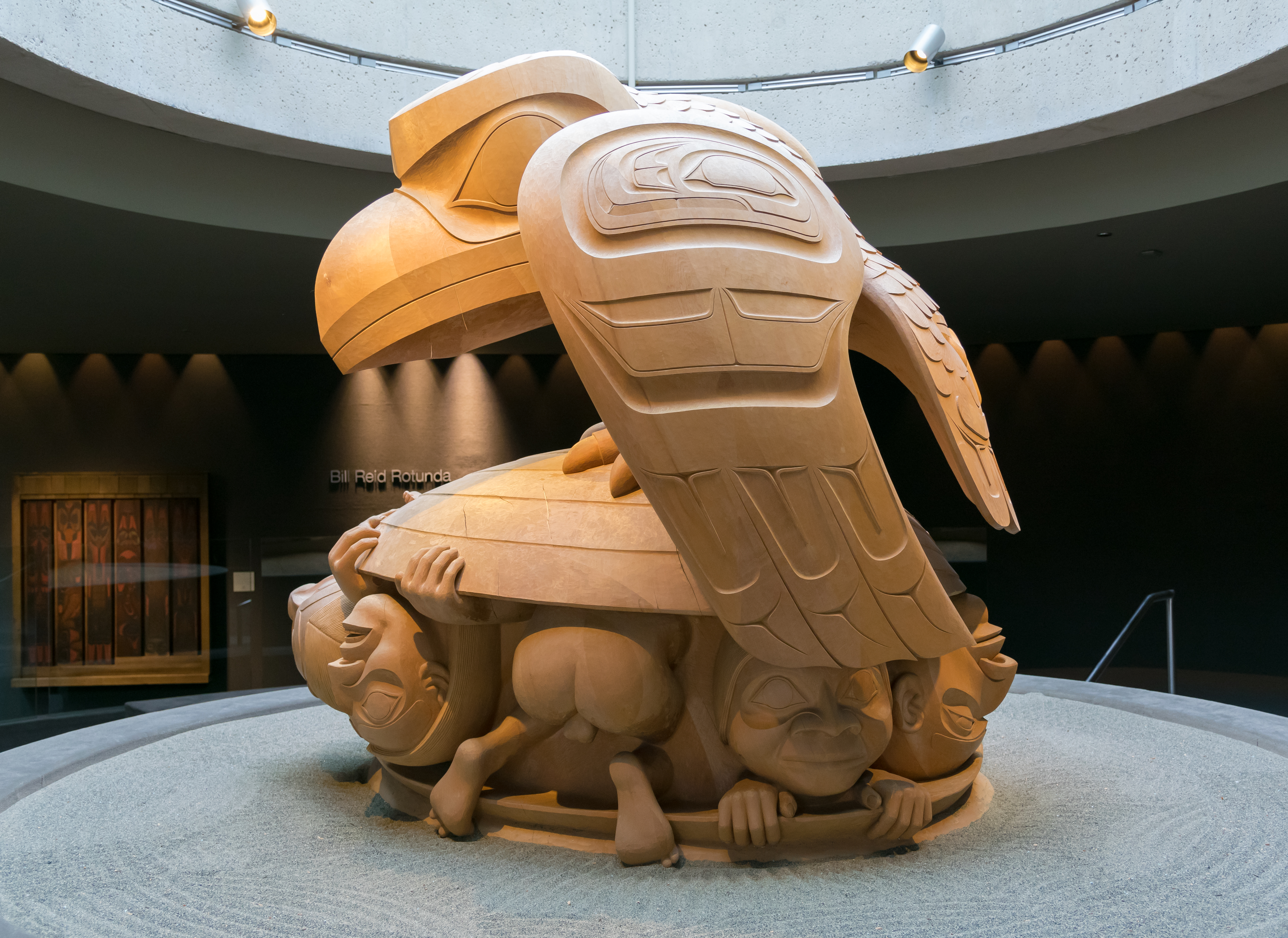 Raven and the First Men, by Bill Reid. Located at the Museum of Anthropology (MOA) at the University of British Columbia